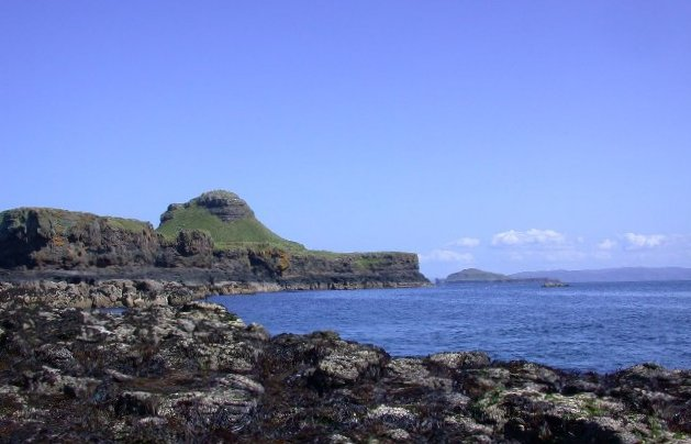 The kelp beach between the islands of Bac Beag and Bac Mòr, looking North towards the summit of Bac Mòr, the distinctive "Dutchman's cap".